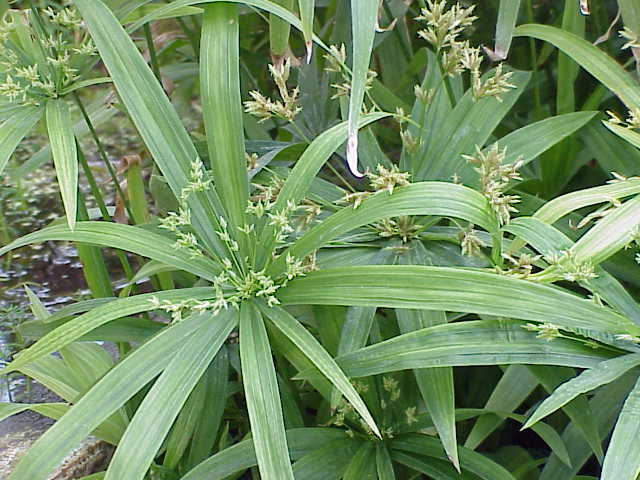 Species: Cyperus diffusus Family: Cyperaceae Image No. 2